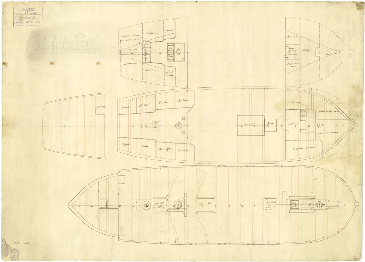 SWIFT 1763 deck